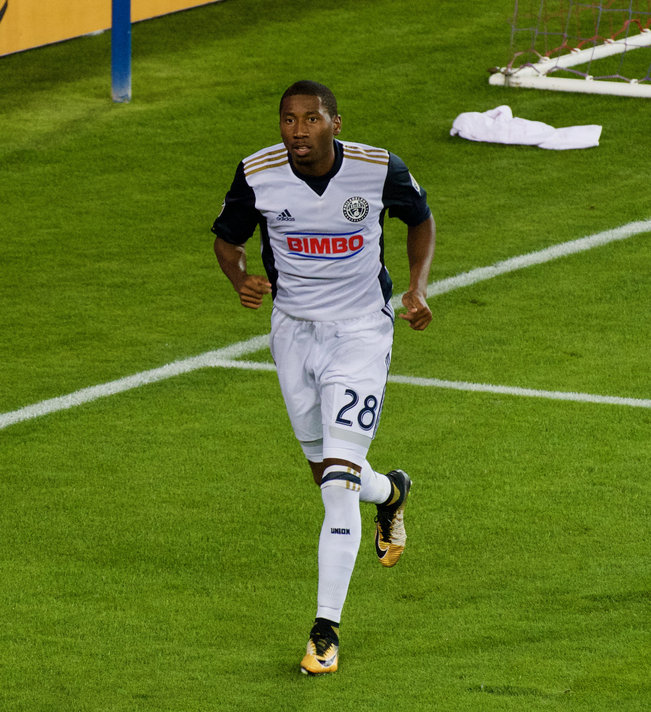 Ray Gaddis playing for Philadelphia Union at Avaya Stadium on 19 August 2017.